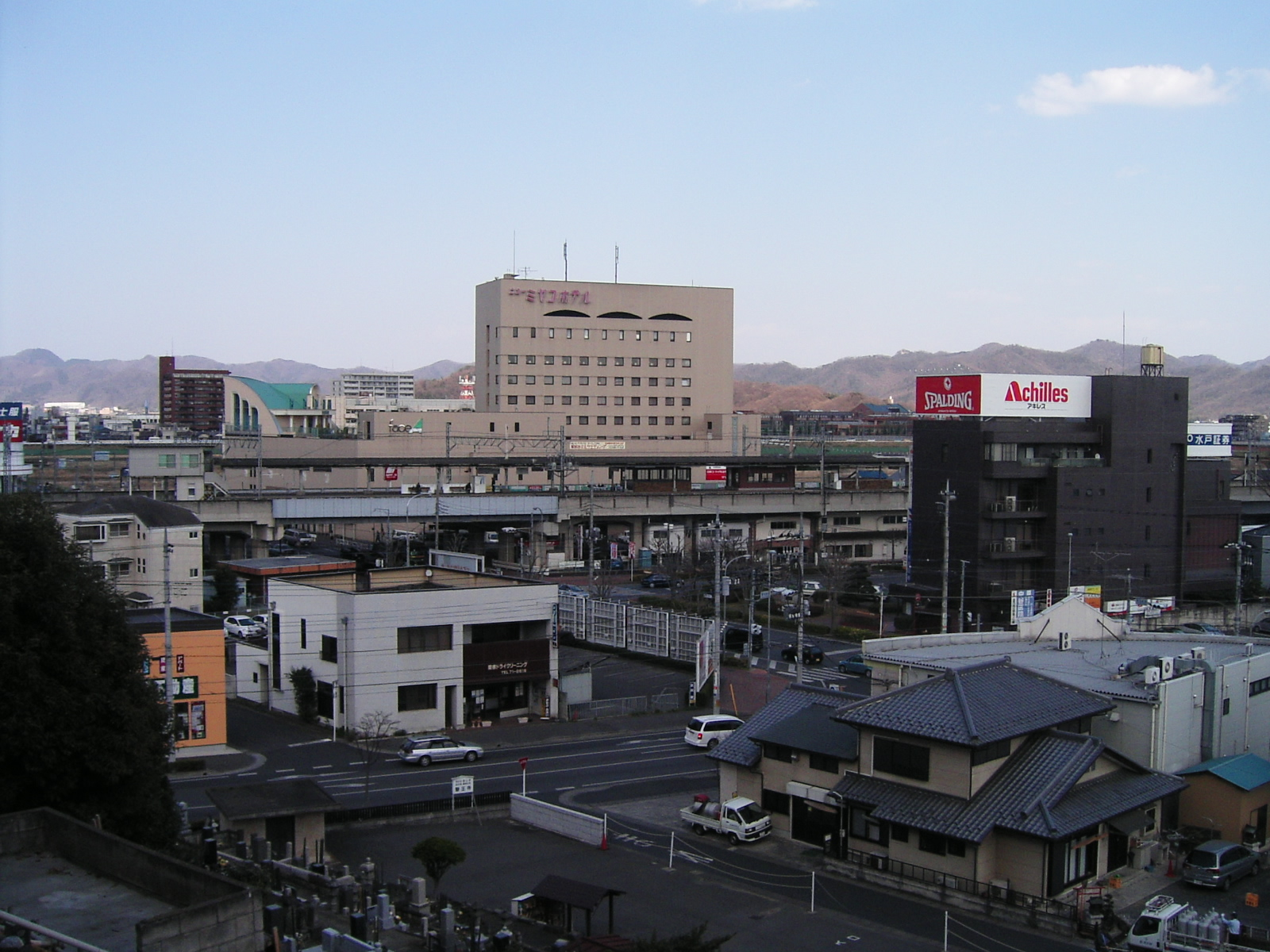 Ashikagashi station in Tobu Isesaki Line in Ashikaga city, Tochigi pref, Japan 足利市駅